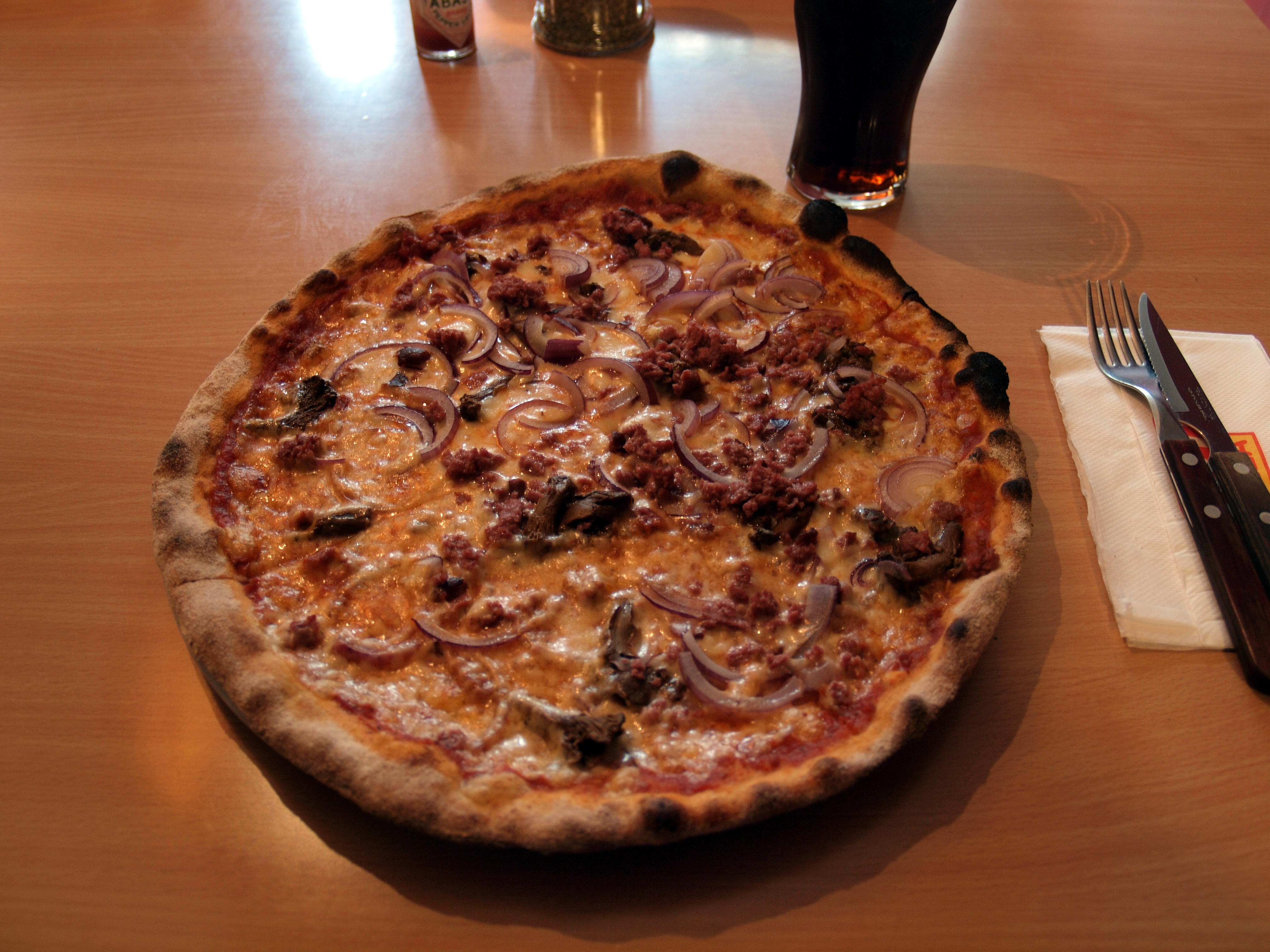 Pizza Berlusconi served at a Kotipizza restaurant in Lauttasaari, Helsinki, Finland.